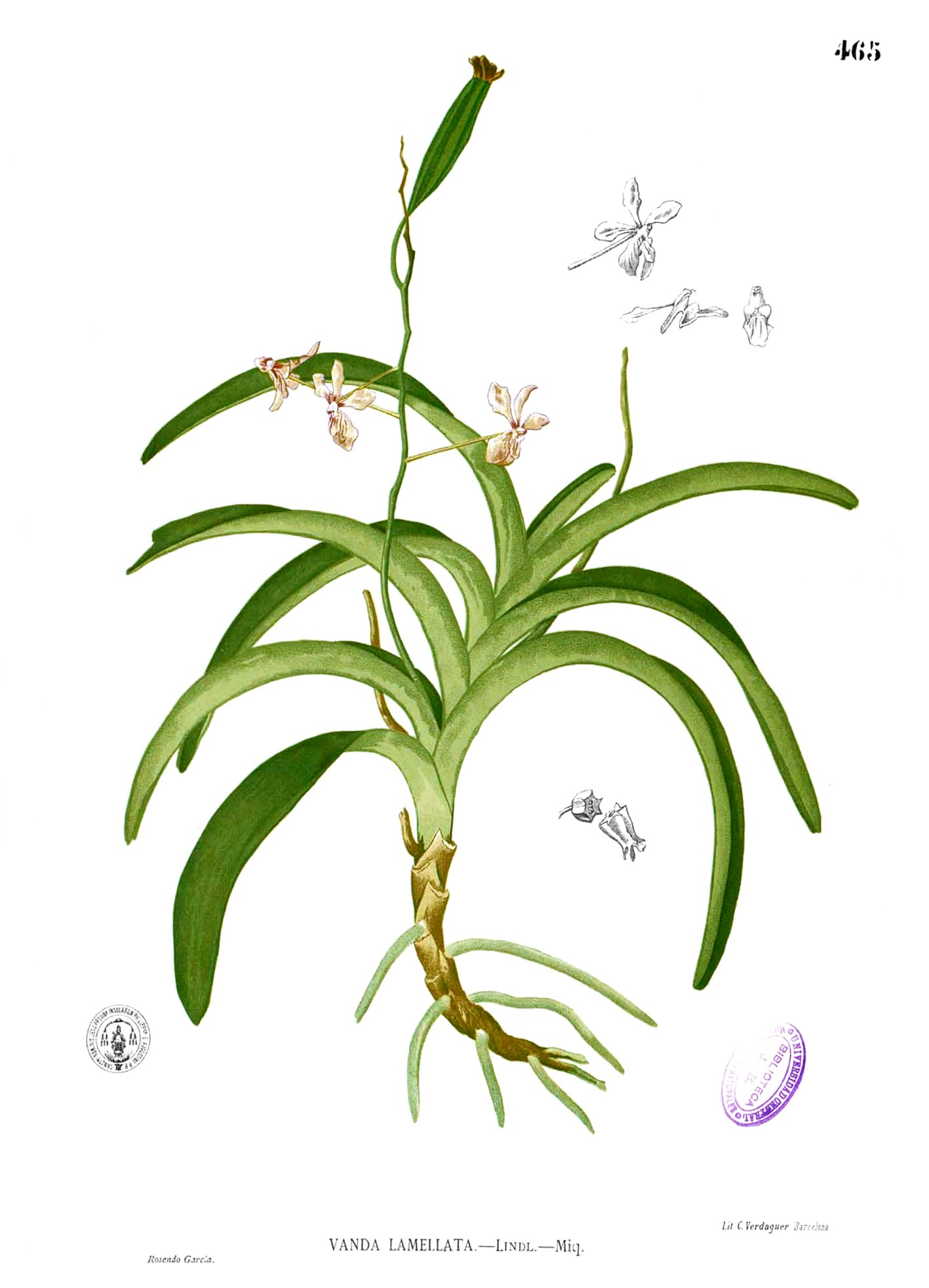 Vanda lamellata - Plate from book